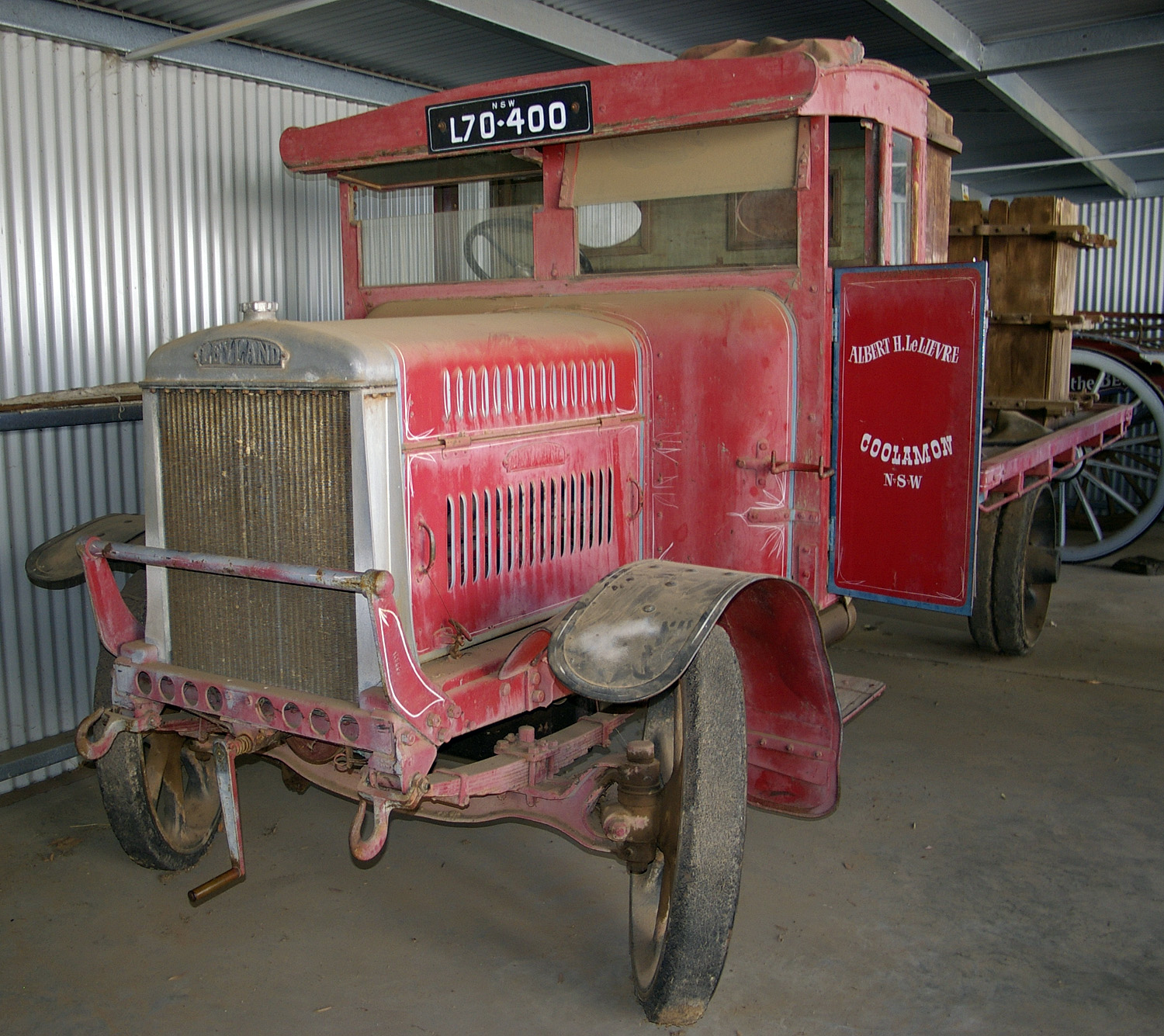 1928 Leyland truck located at the Museum of the Riverina in Wagga Wagga, New South Wales. The Leyland truck was originally used by Albert H.LeLievre in Coolamon, New South Wales.